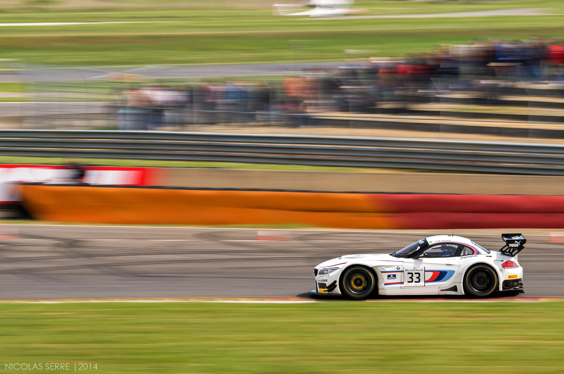 Lundi 21 Avril 2014 Blancpain Sprint Series Round 1 Paddock BMW Z4 GT3 #33 Roal Motorsport Alex Zanardi